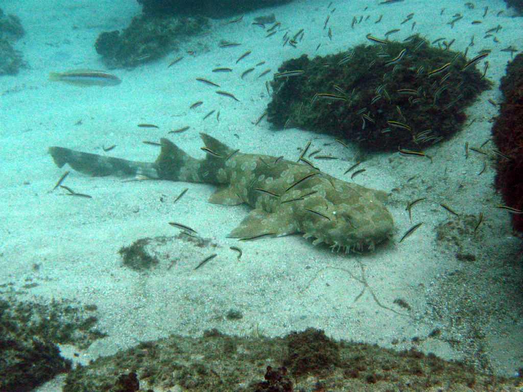 Spotted wobbegong (Orectolobus maculatus)